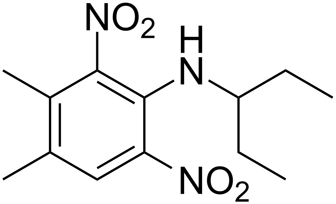 Chemical structure of Pendimethalin